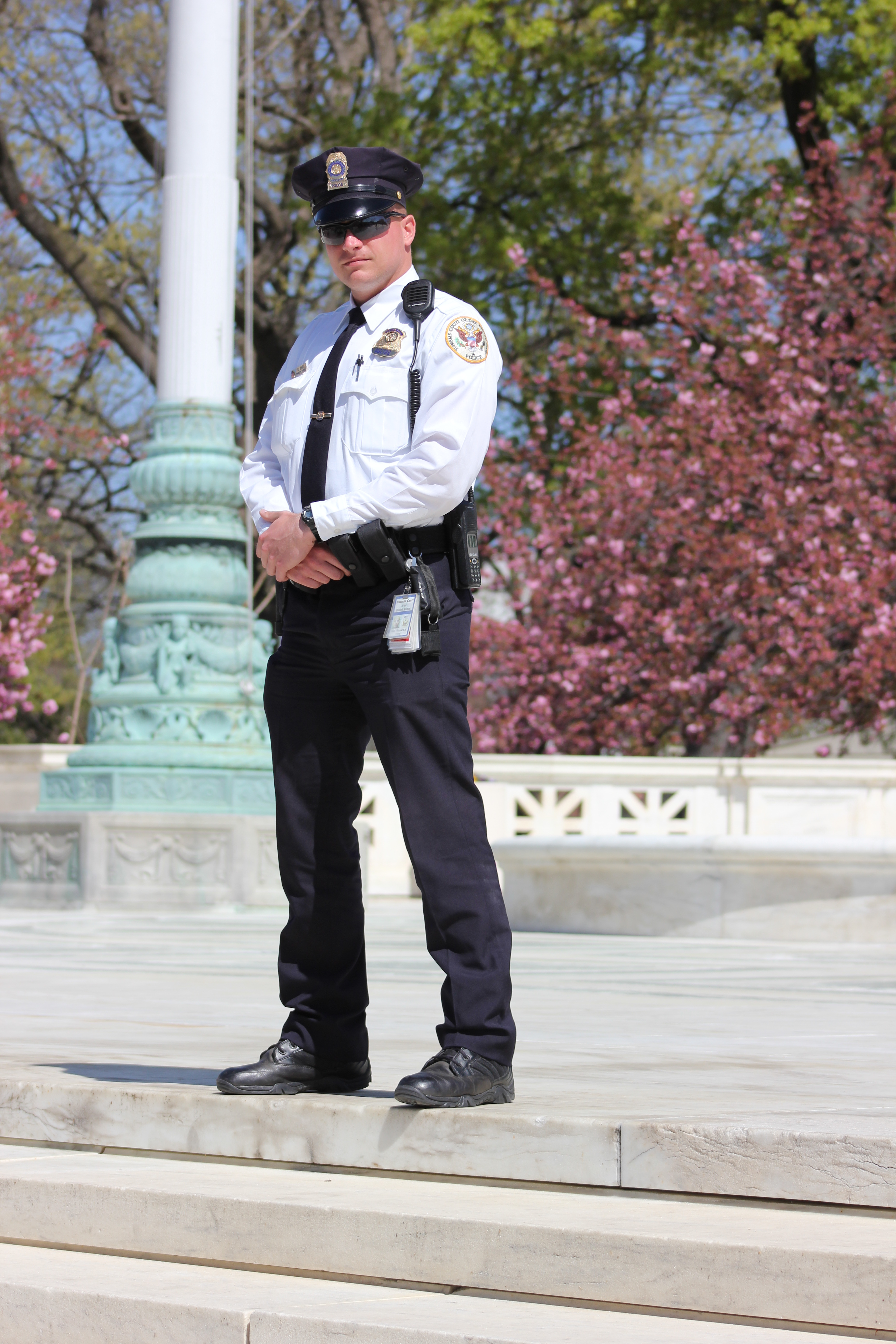 Health Care Reform Law Protests at the US Supreme Court on 1st Street between Maryland Avenue and East Capitol Street, NE, Washington DC on Tuesday afternoon, 27 March 2012 by Elvert Barnes Photography Supreme Court of the United States Police